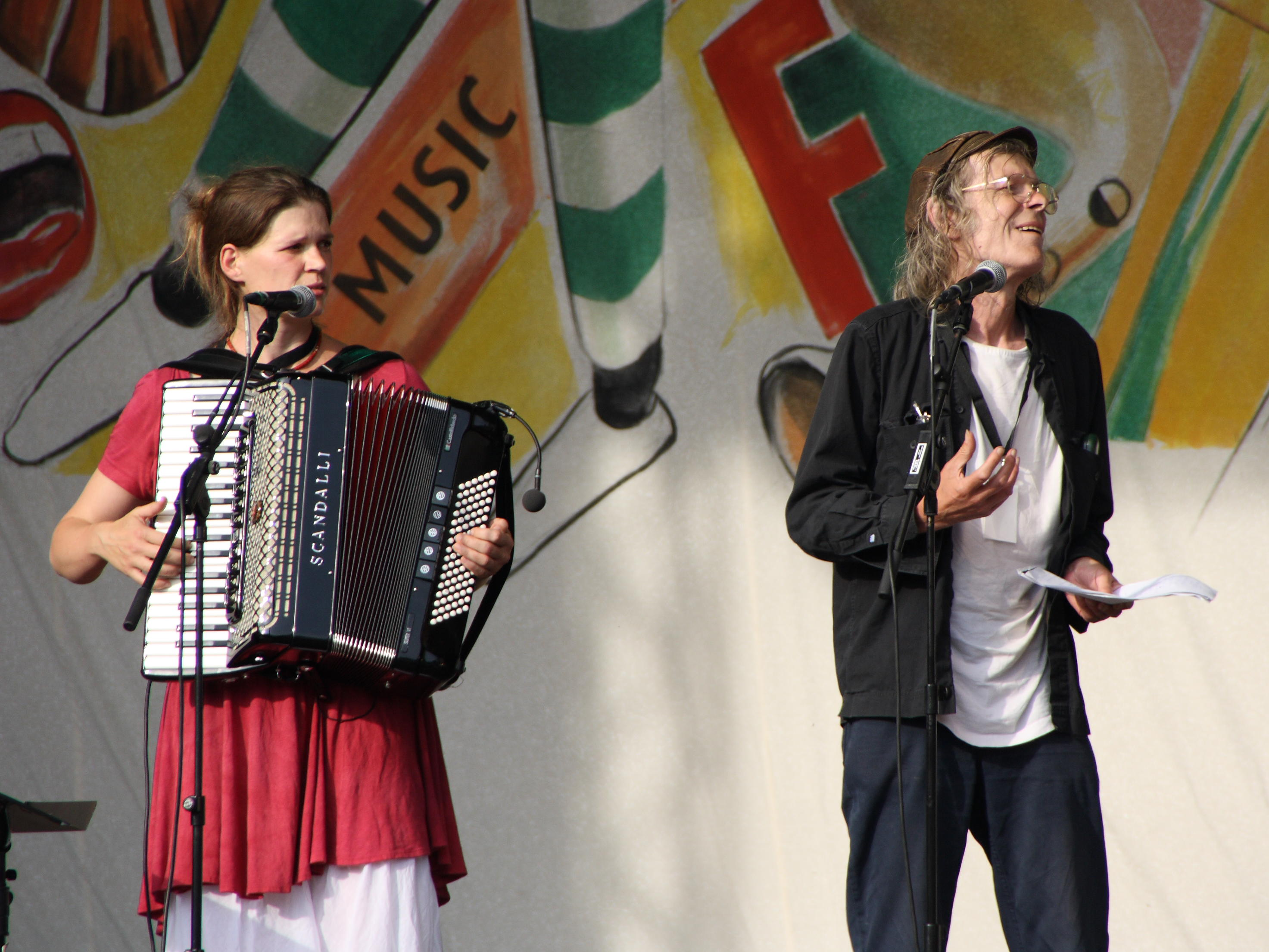 German folksinger Thomas Friz (form. Zupfgeigenhansel) and Henrike Jähme (Pankraz) on accordion at TFF-Festival, Rudolstadt